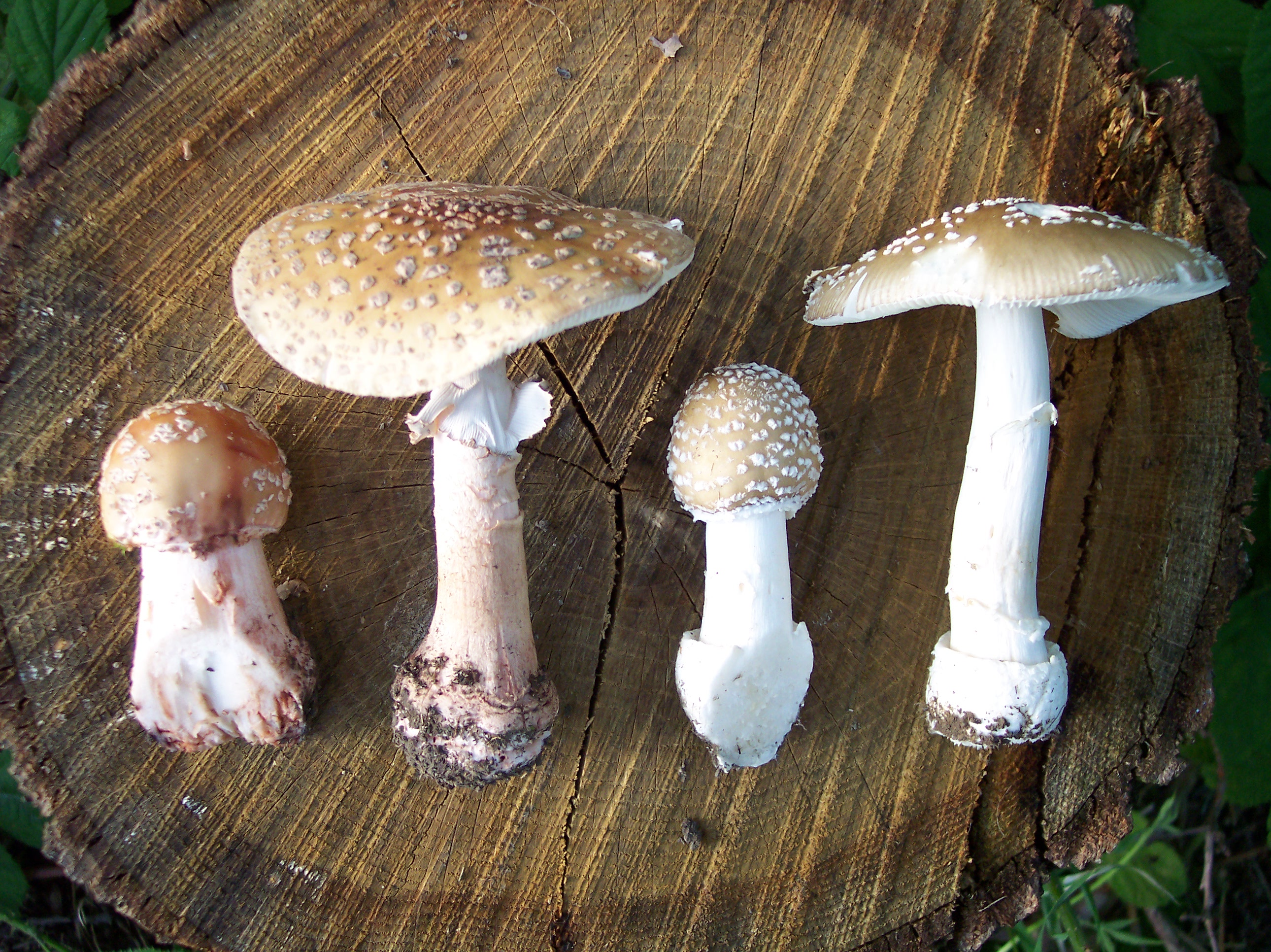 Amanita rubescens in comparison to Amanita pantherina